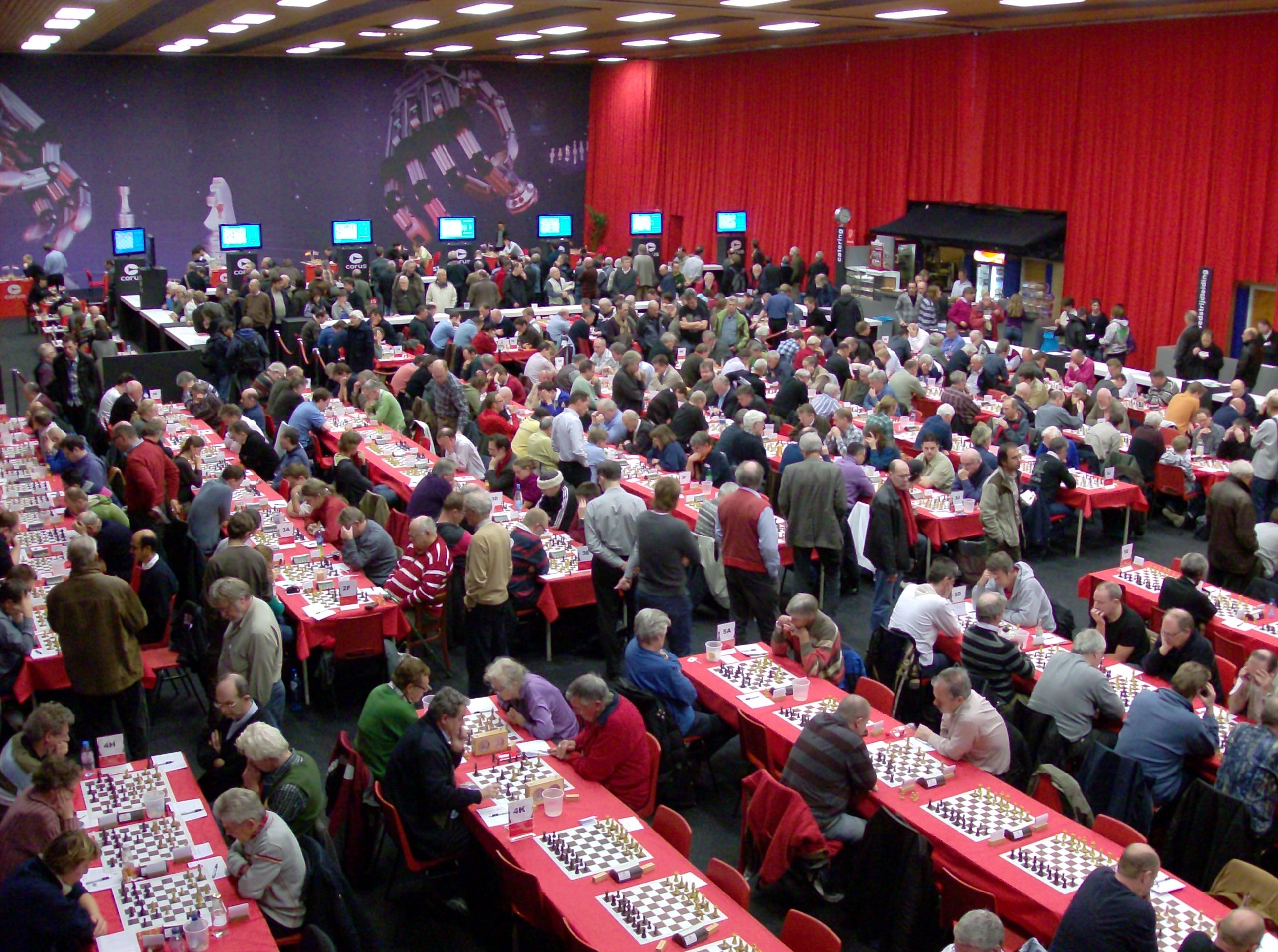 Corus Chess Tournament 2010, view of playing hall